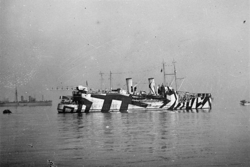 Royal Navy seaplane tender HMS Nairana (1917) in dazzle camouflage